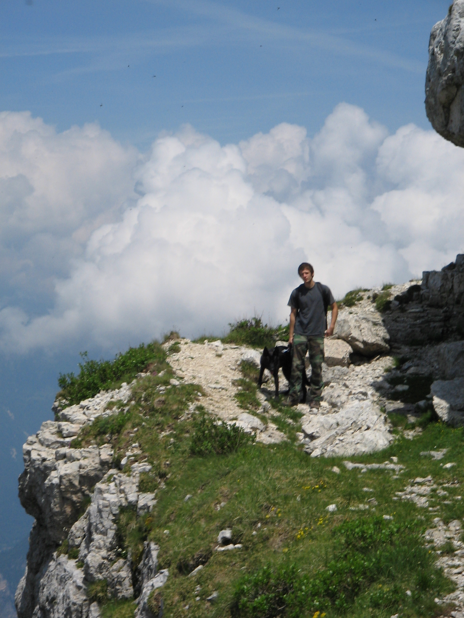 Ortigara, first aid place on the edge of the ravine (Valsugana)